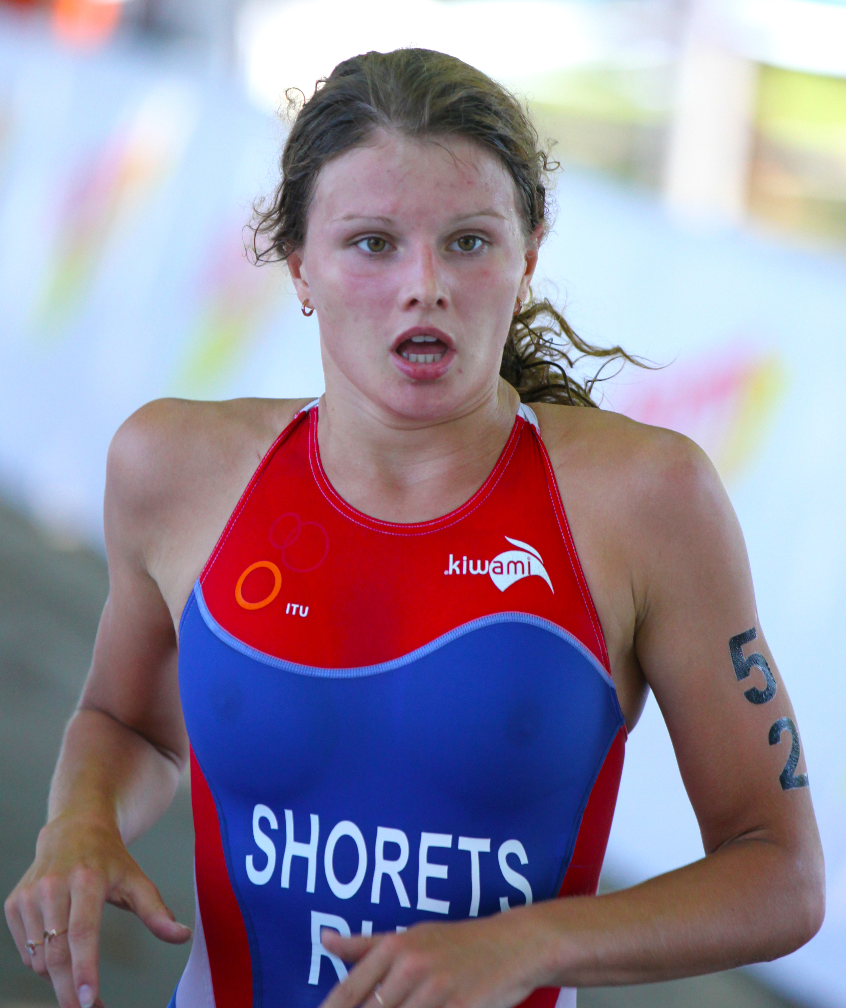 Mariya Shorets (Мария Сергеевна Шорец) at the Triathlon Elite Sprint World Championships in Lausanne.